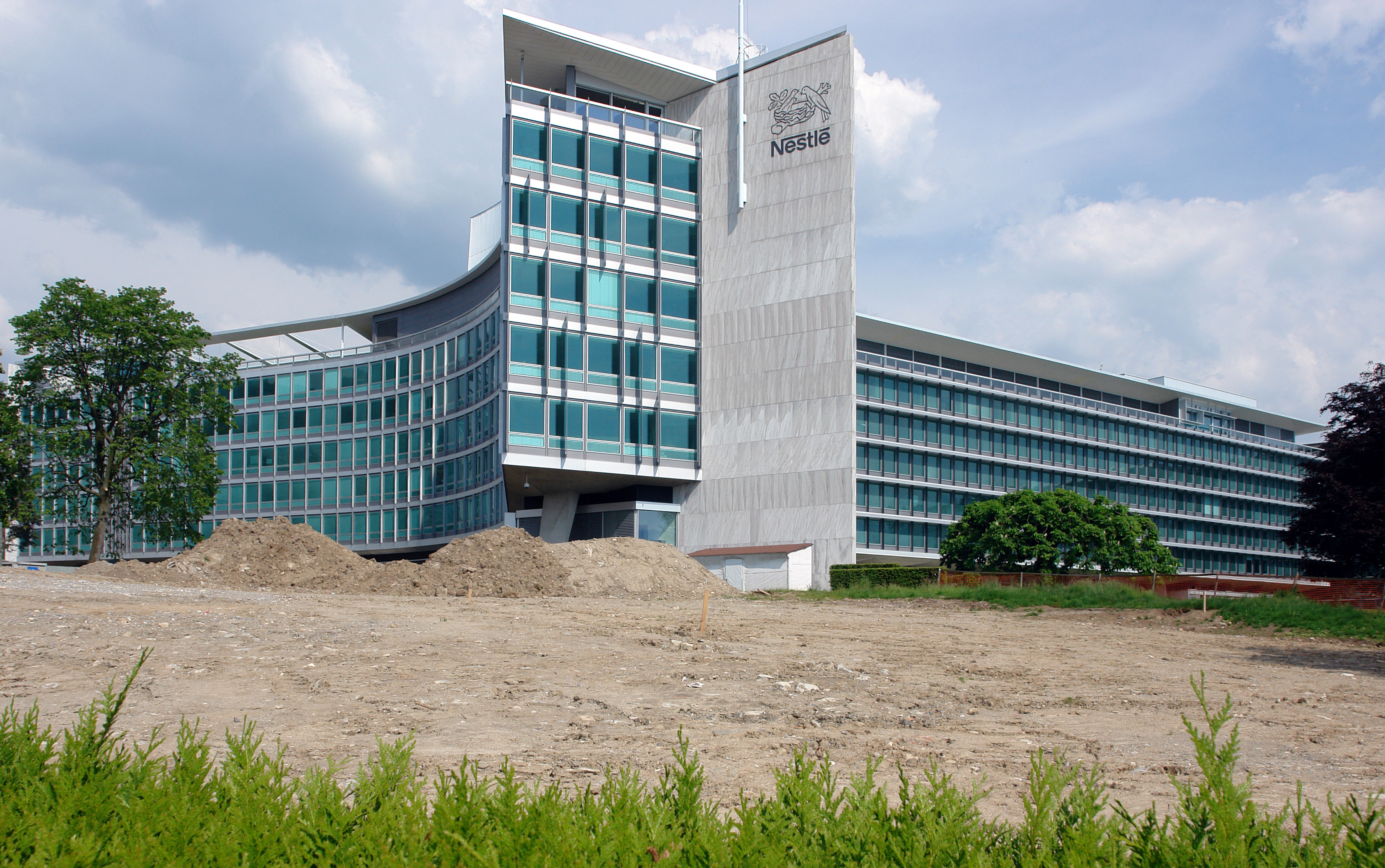 Nestlé Headquarters in Switzerland, Architect: Jean Tschumi, Year: 1957-60, Front End